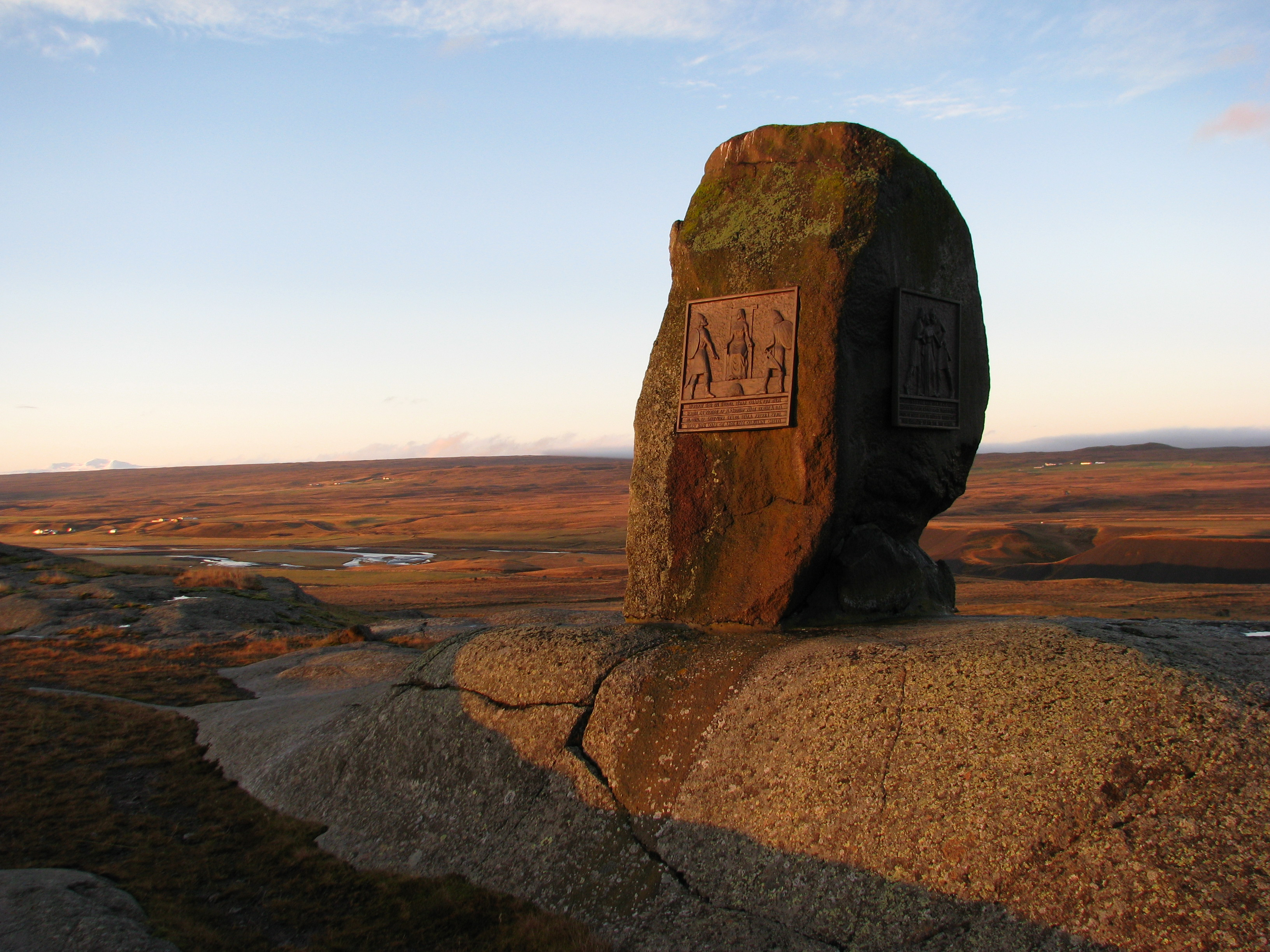 Bjarg, a monument for Grettir the Strong, Iceland